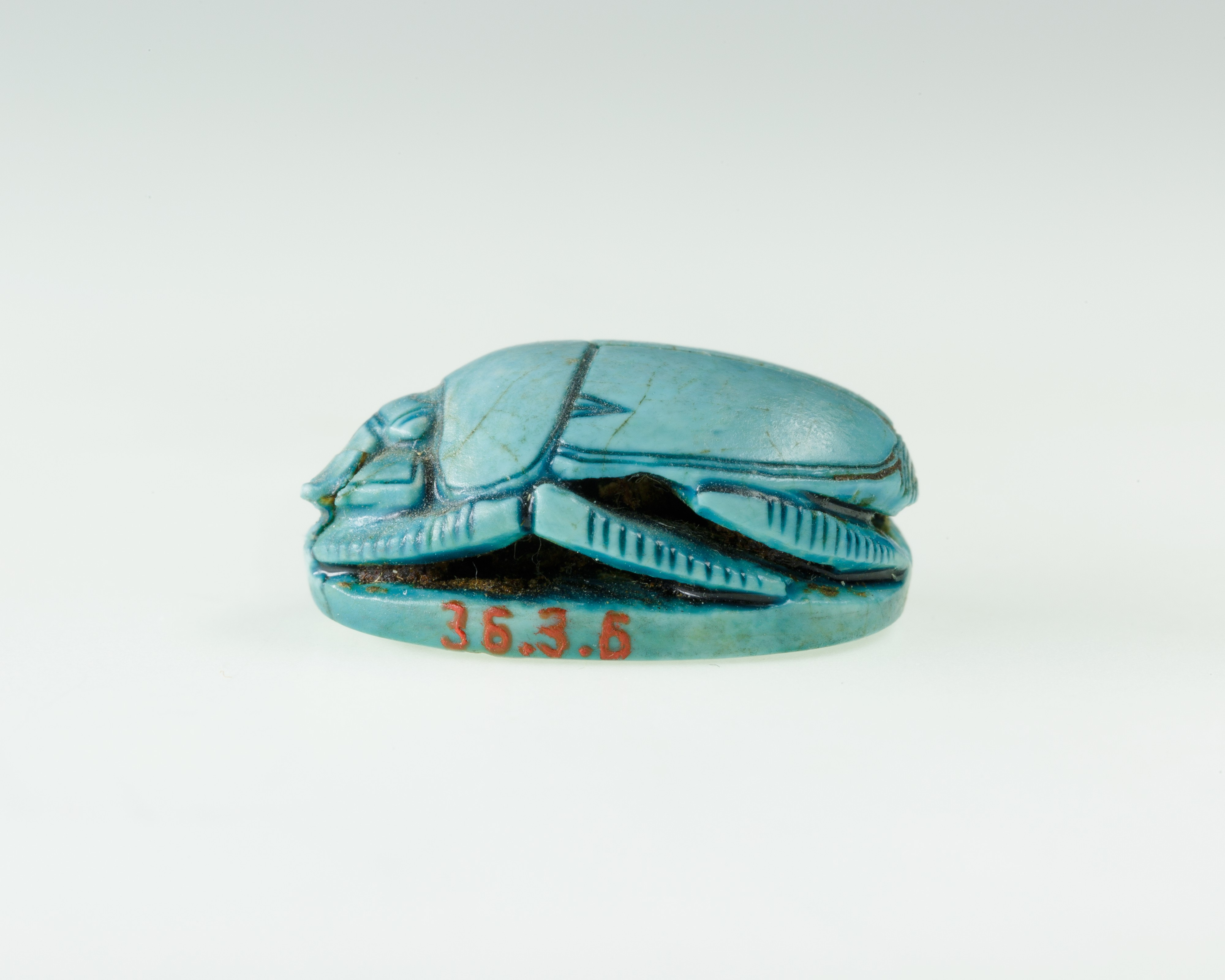 Scarab, Hatshepsut, Hatnefer